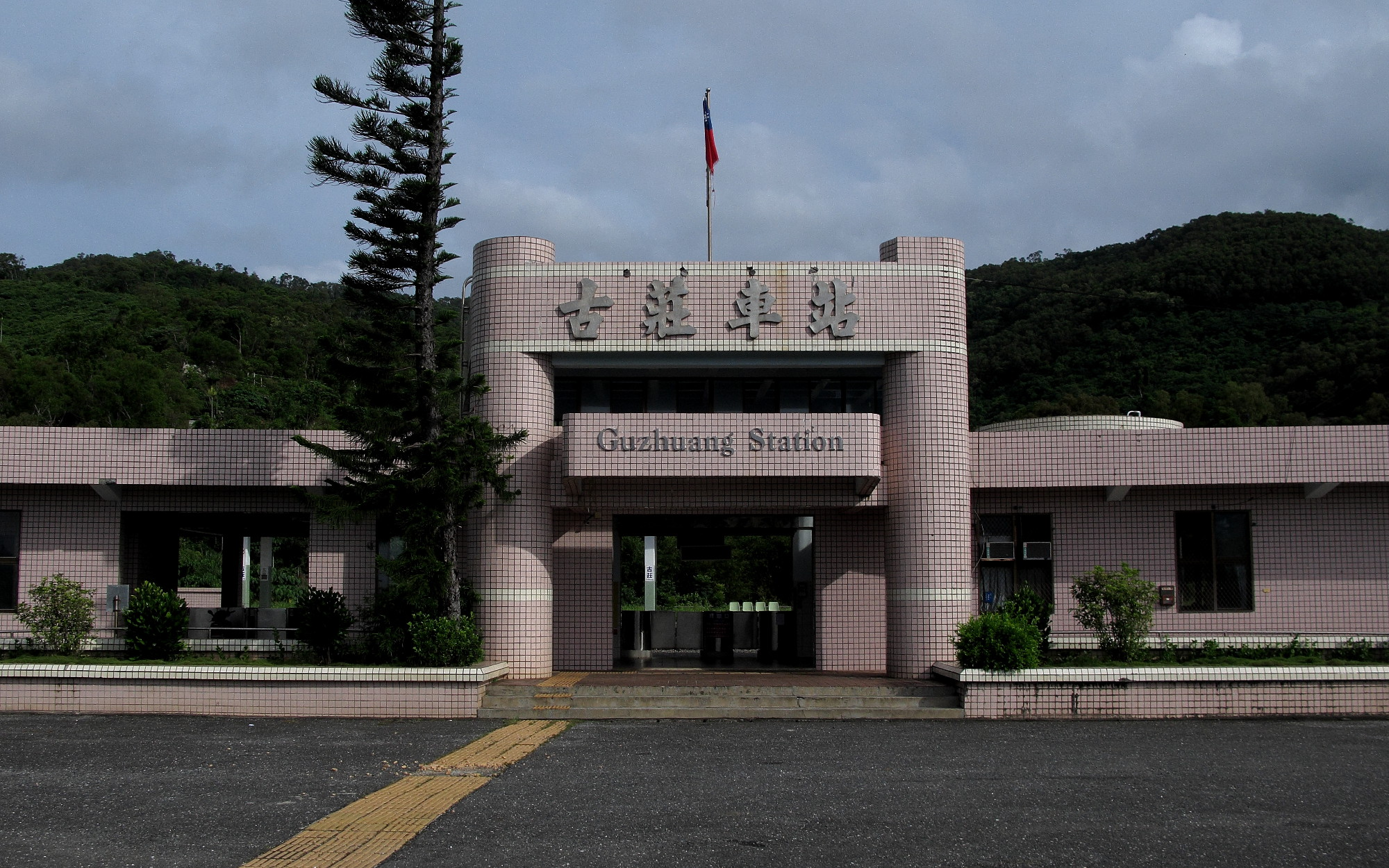 Guzhuang Station is a railway station in TRA Sorth-Link Line.It's the main station of Shangwu, Taitung.中文（中国大陆）: 古庄车站是台铁南回线一座车站。它也是台东尚武的主要车站。